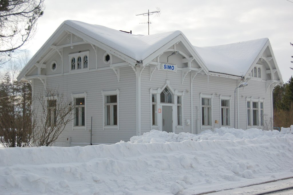 Simo railway station, Finland, on the Oulu–Tornio line. Built in 1904, used as a dispatch office until 2003 when CTC was built.